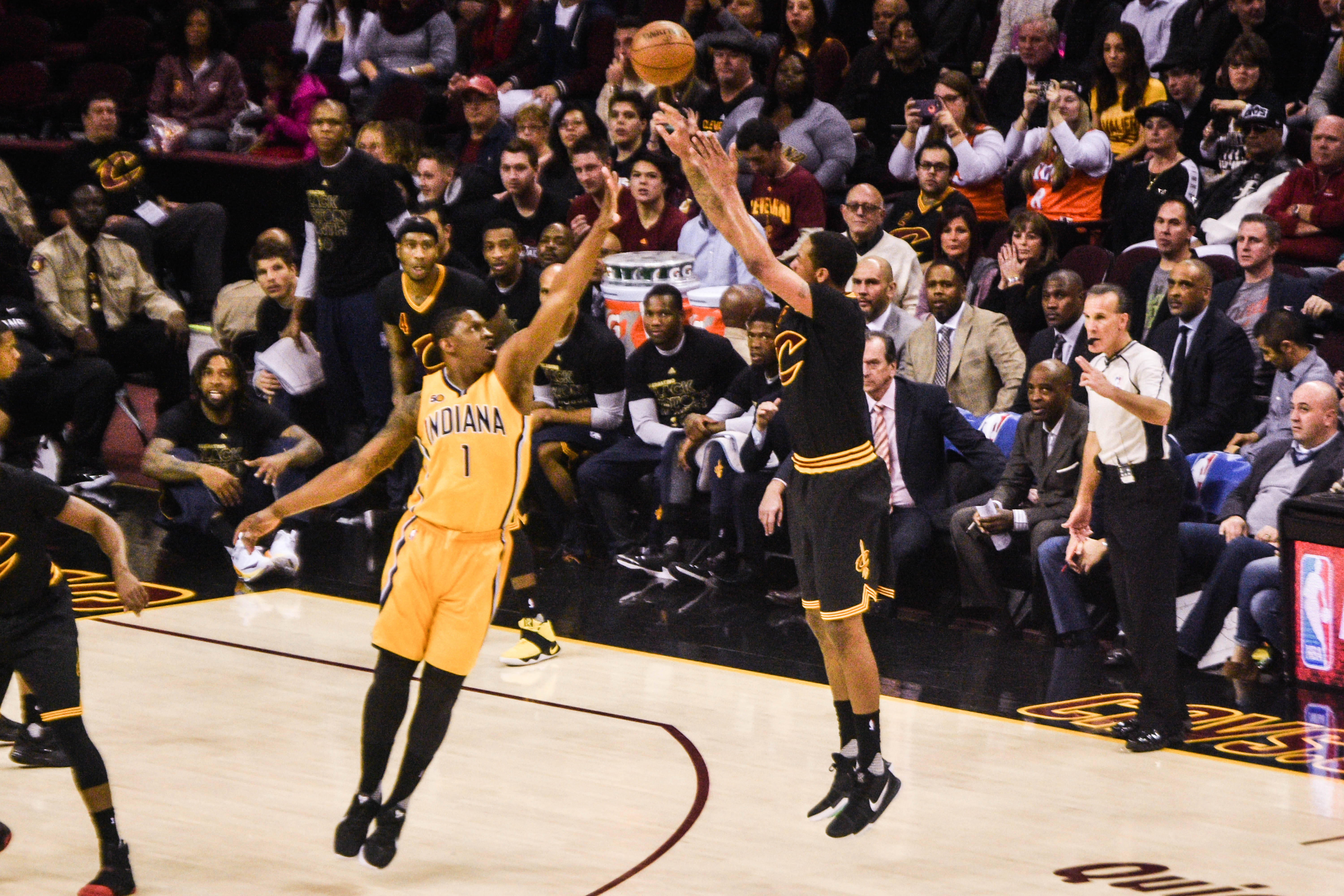 Channing Frye attacking the basket as a member of the Cleveland Cavaliers in February 2017.